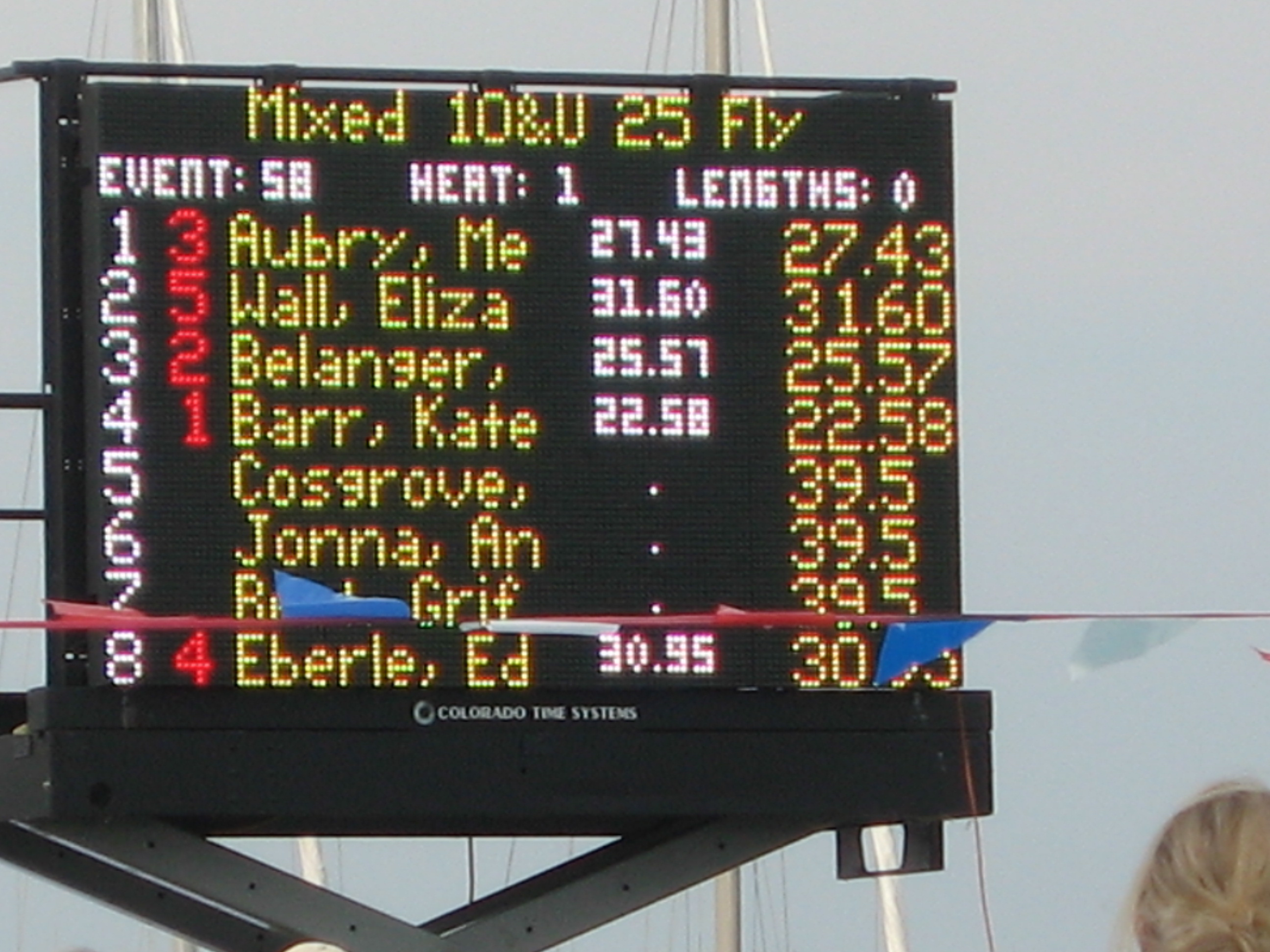 Portable outdoor display during a swim race at the Grosse Pointe Yacht Club